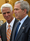 President Bush speaking with Rick.